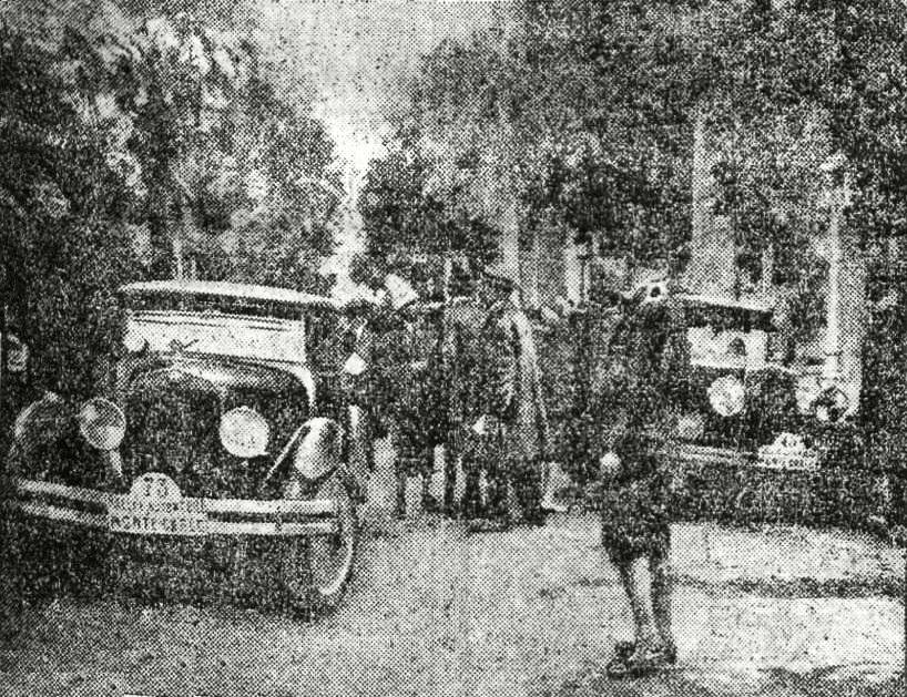 Arriving in Monte Carlo at the 1928 Rallye is entry #73, a Delage driven by Boivin.[1] They did not win, but complettced.